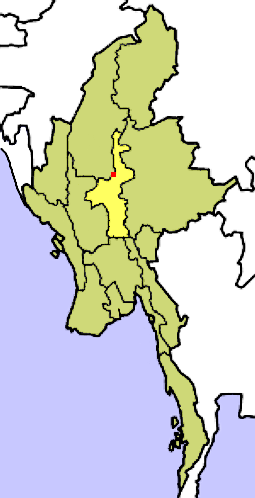 Location of Mandalay Division in Myanmar w/ capital.